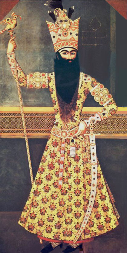 Fath Ali Shah, Standing, by Mihr Ali